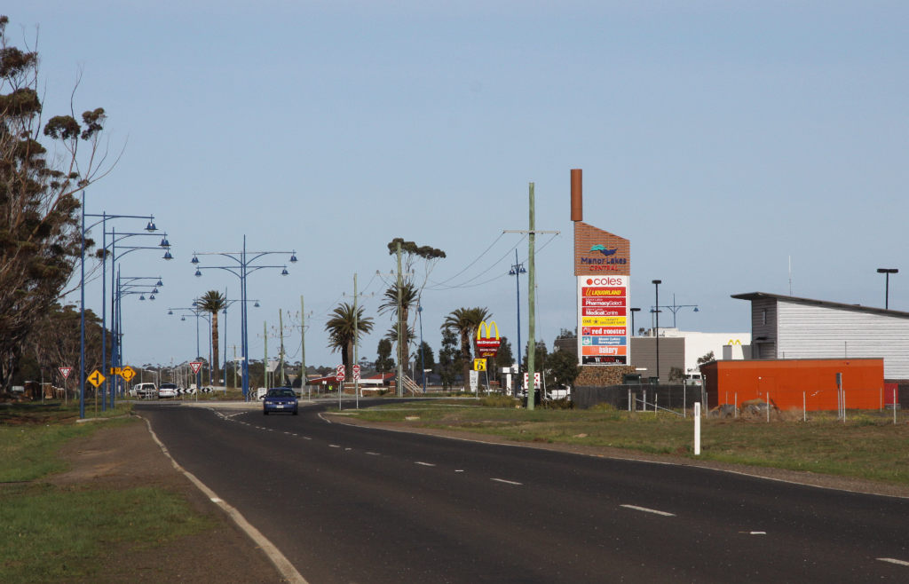 Manor Lakes Shopping Centre, on Ballan Road, Wyndham Vale, Victoria